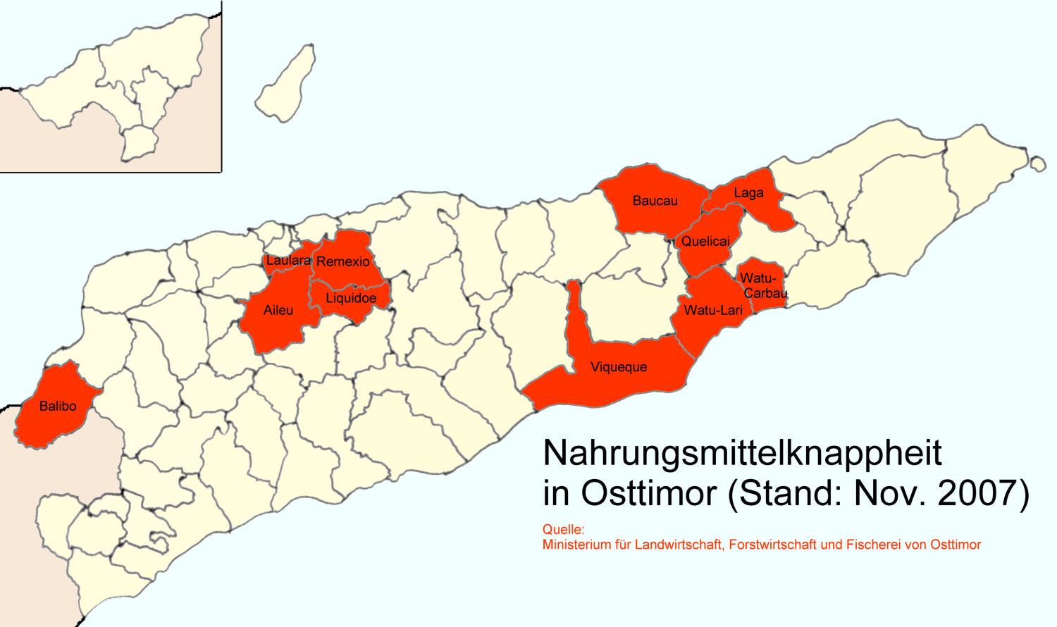 Subdistricts with food shortage in East Timor (Timor-Leste) in November 2007